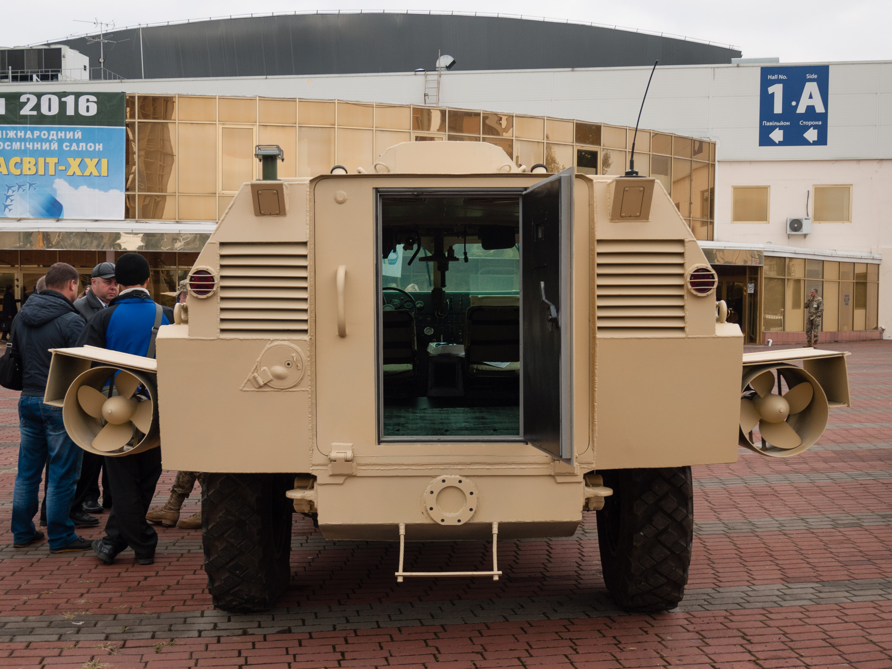 BKM Azov rear